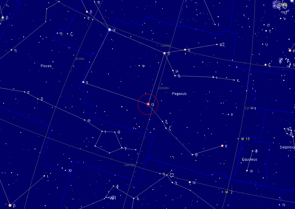 Location of Alpha Pegasi